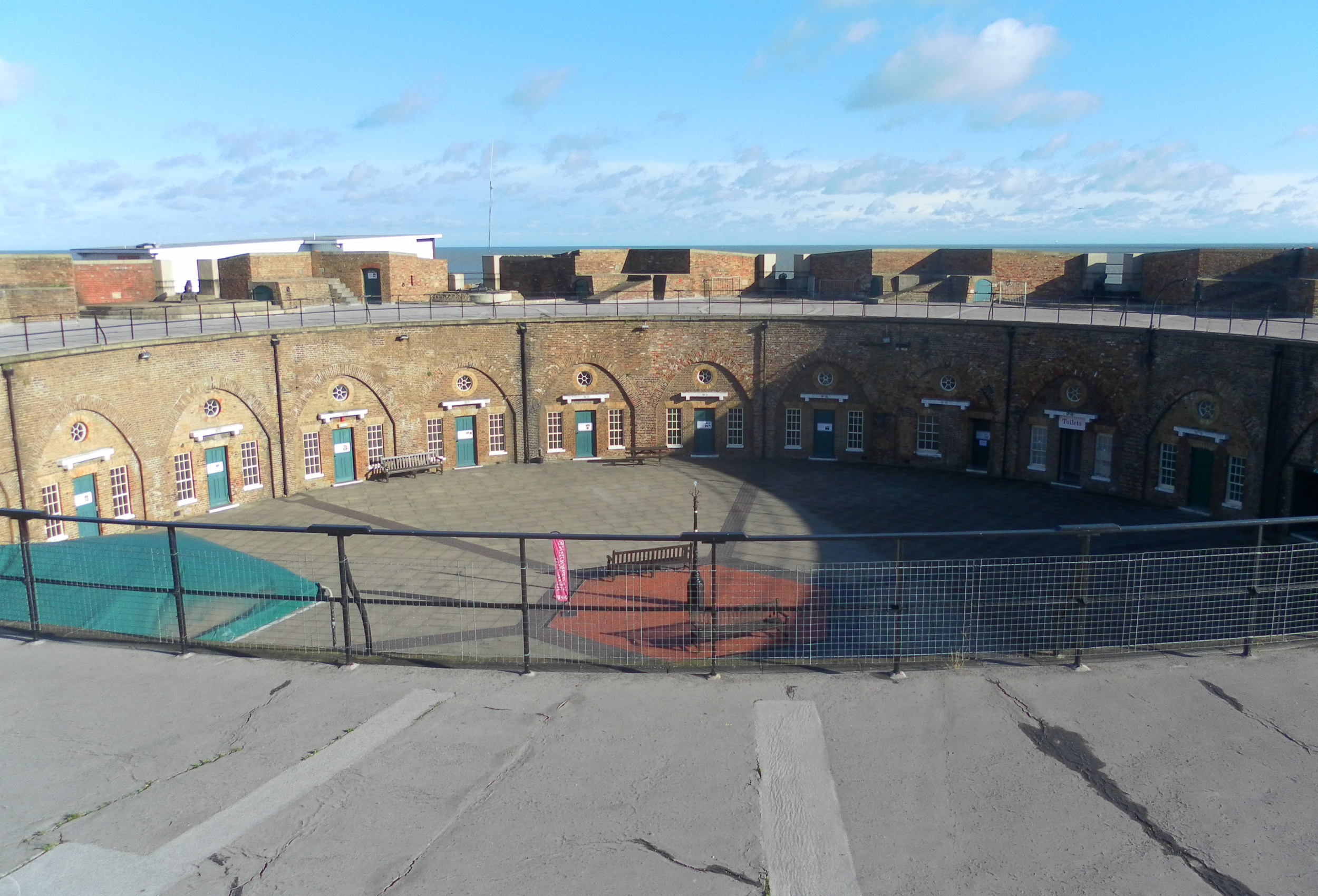 Eastbourne Redoubt Fort, Eastbourne, East Sussex, England. Listed at Grade II by English Heritage (NHLE Code 1043662)